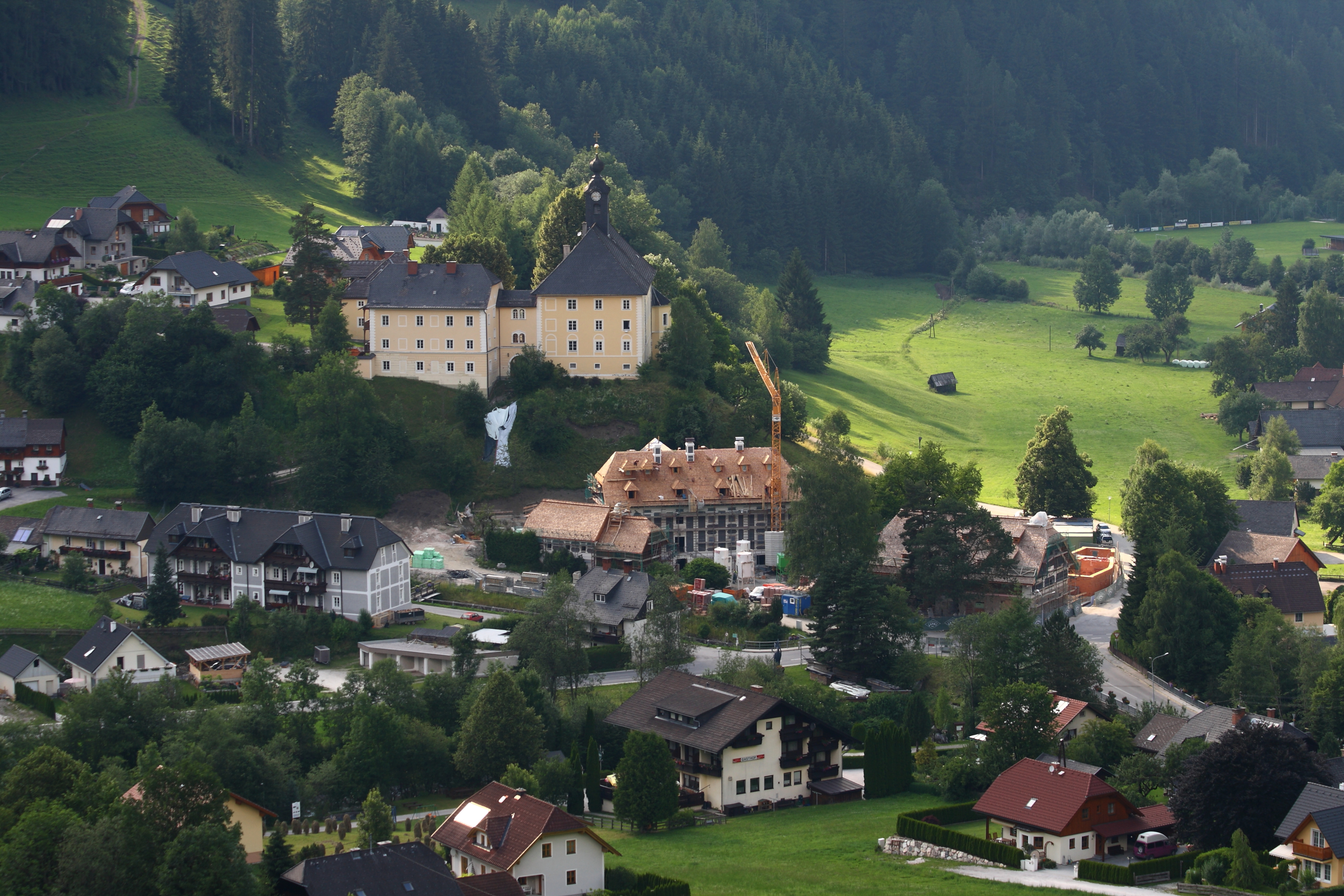 Castle and parishchurch Donnersbach, Styria, Austria